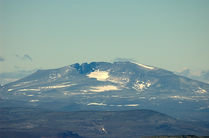 Snøhetta seen from Rondeslottet.